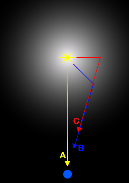 Illustration of the geometry of a light echo (corrected to show rays B and C coming from the same apparent location)